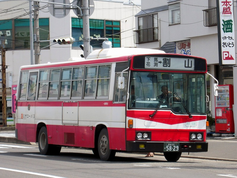 Miyako bus Shichigahama loop line